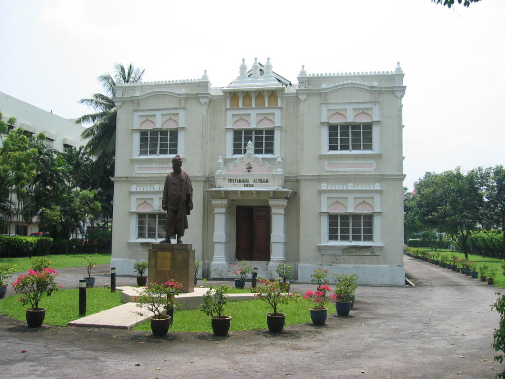 Vivekananda Ashramam, Brickfields